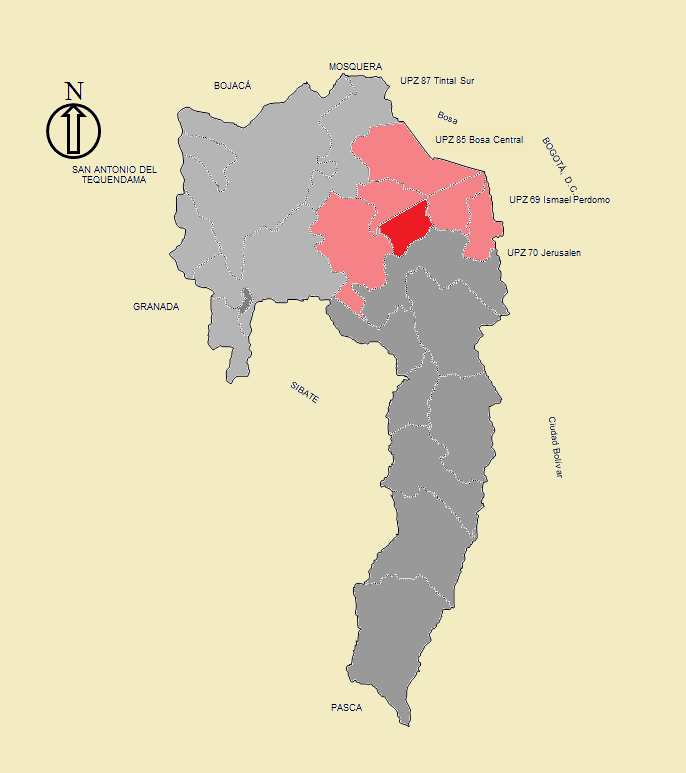 Commune 6 San Humberto map, Municipality of Soacha (department of Cundinamarca, Colombia)